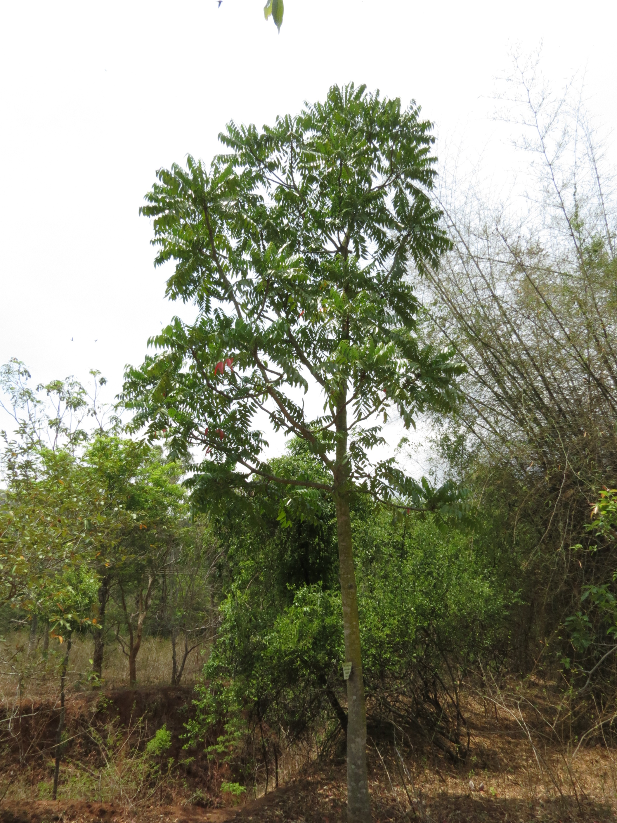 Ailanthus triphysa tree